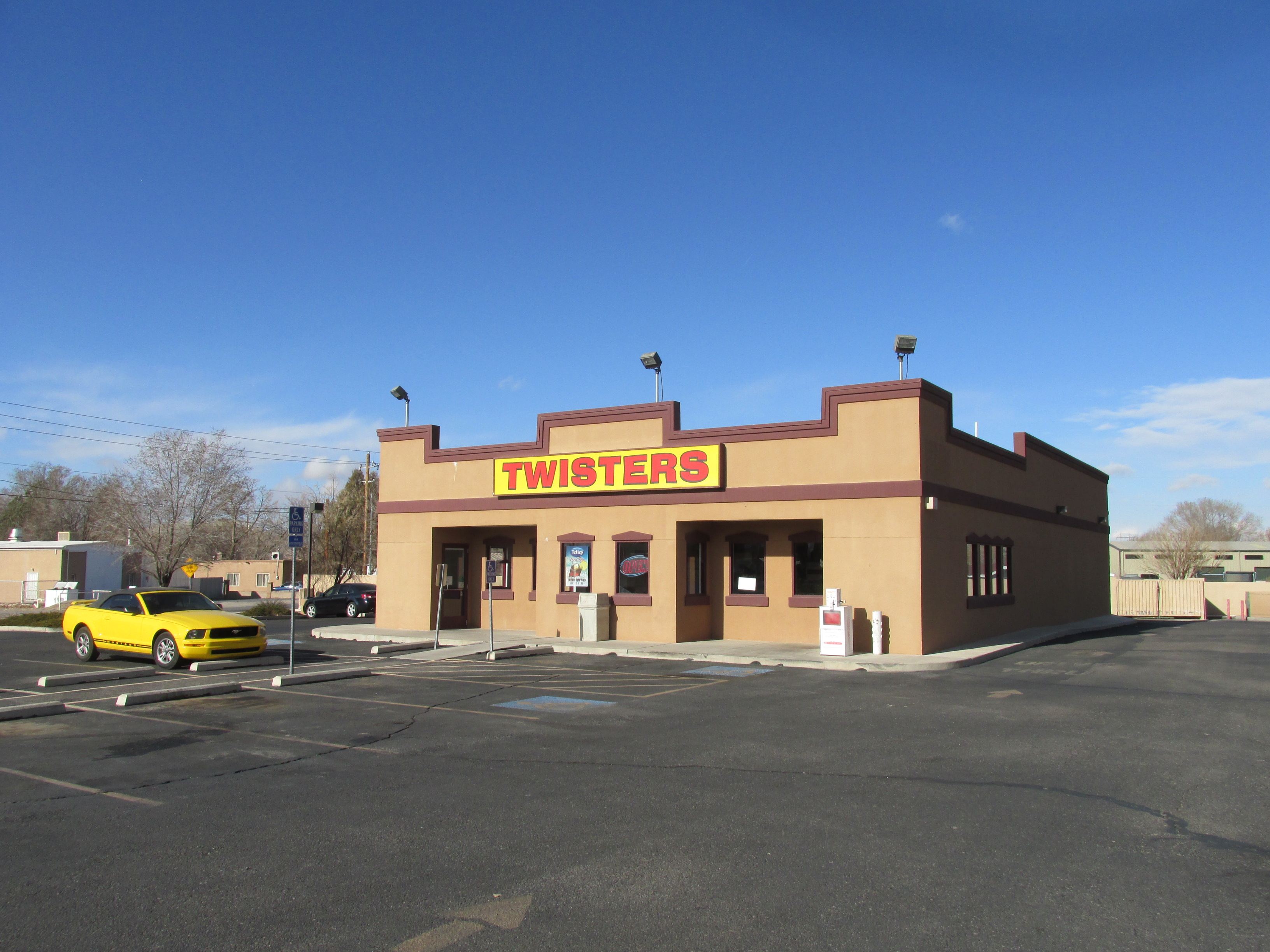 Twisters, Isleta Blvd, South Valley New Mexico - Los Pollos Hermanos in "Breaking Bad"